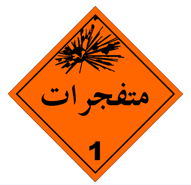 Source: "Emergency Response Guidebook." U.S. Department of Transportation, 2004, pages 16-17.